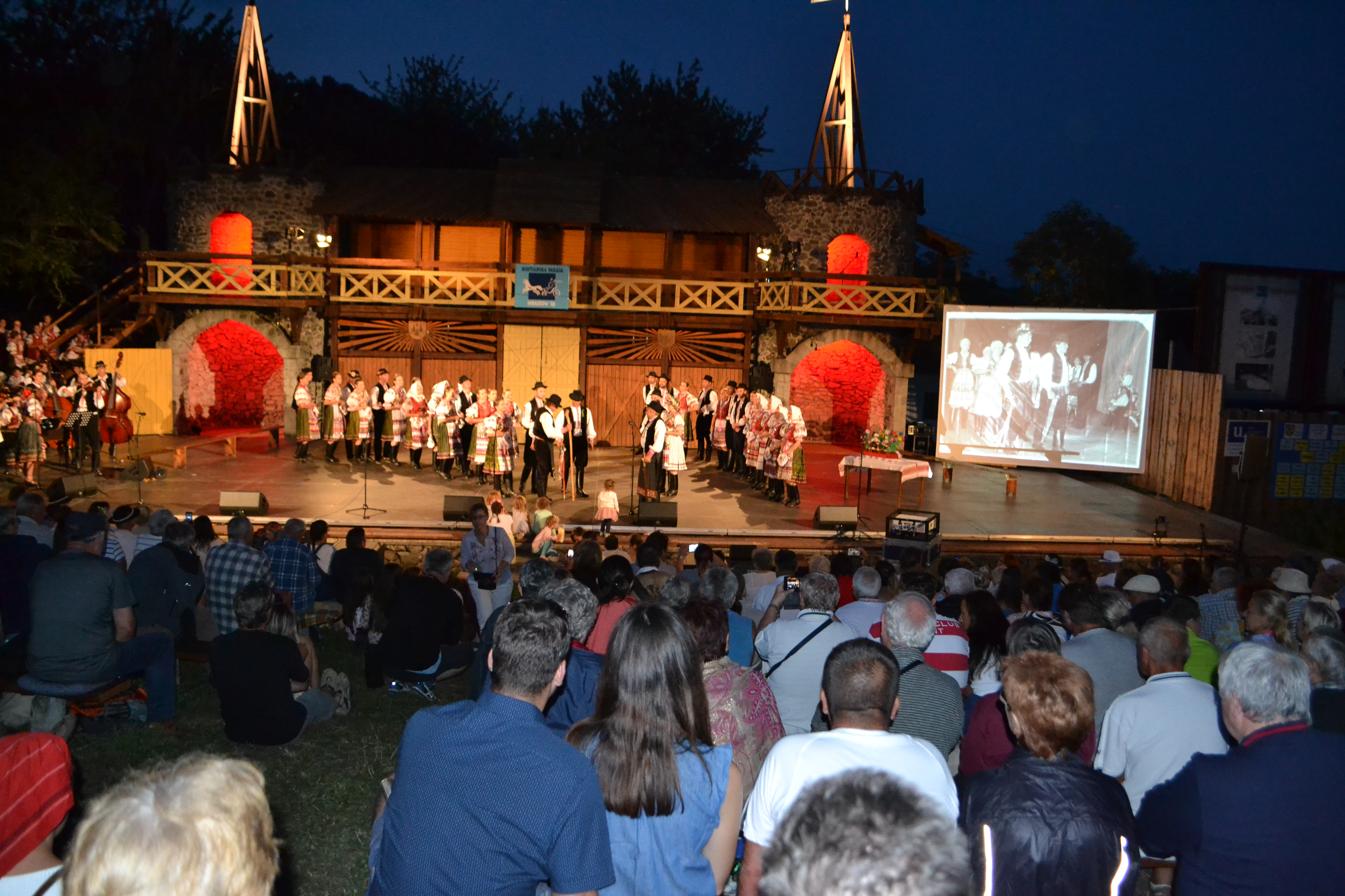 Spectacle from folk festival Hontianska paráda in Hrušov, 2018.